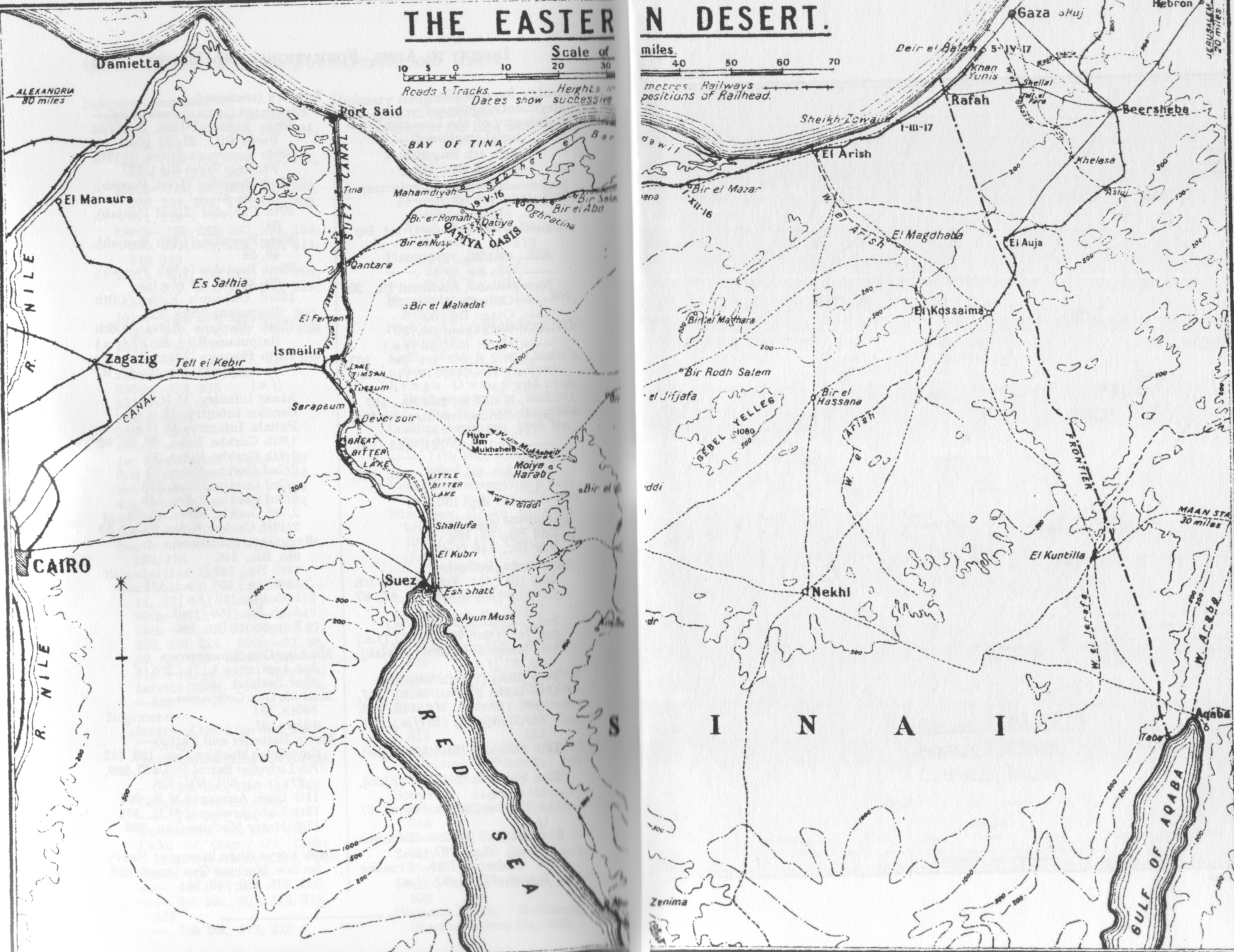 Sketch map of the Eastern Desert.